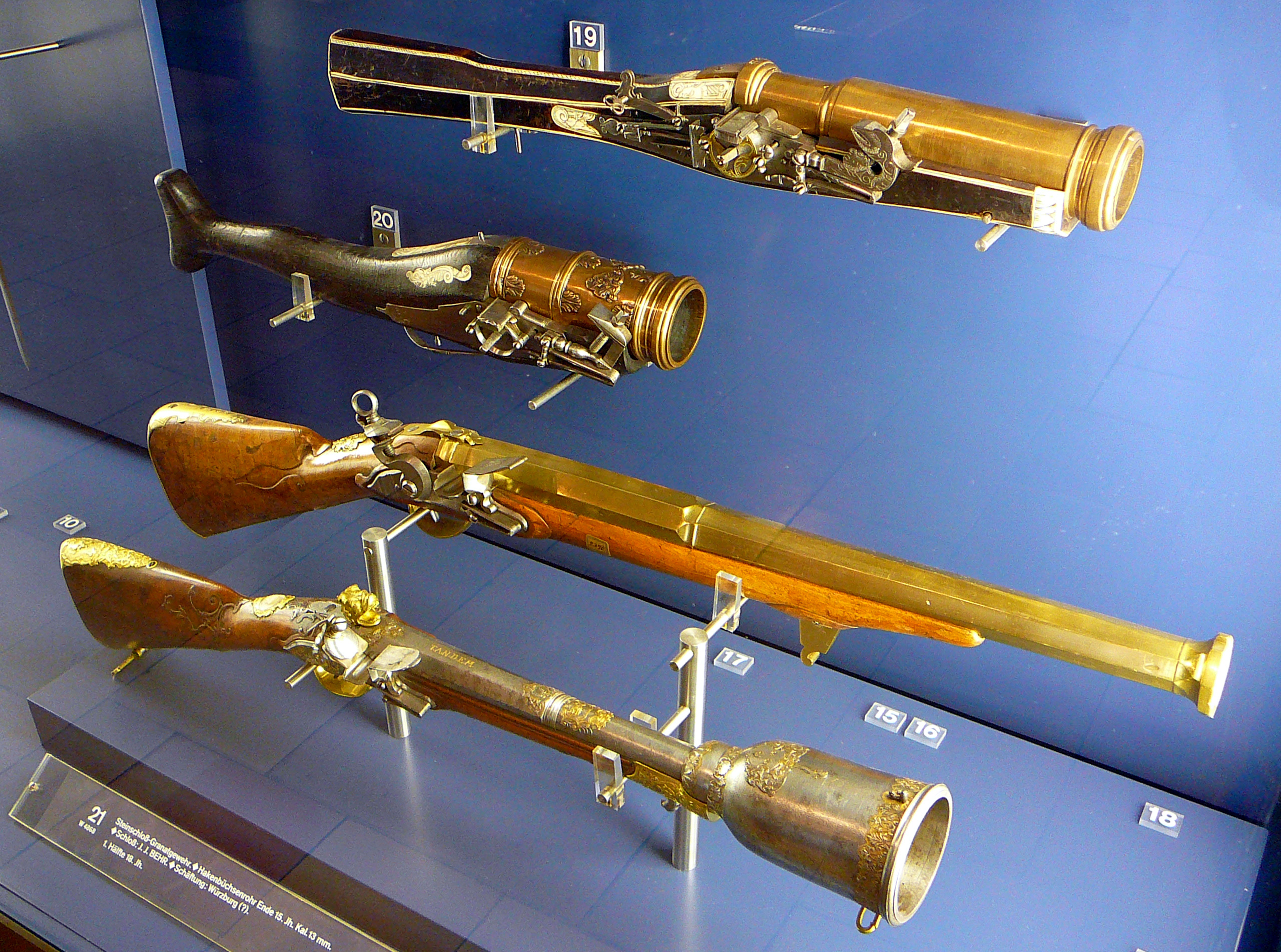 German grenade rifles from the 16th century (wheellock) and 18th century (flintlock) in the Bayerisches Nationalmuseum, München